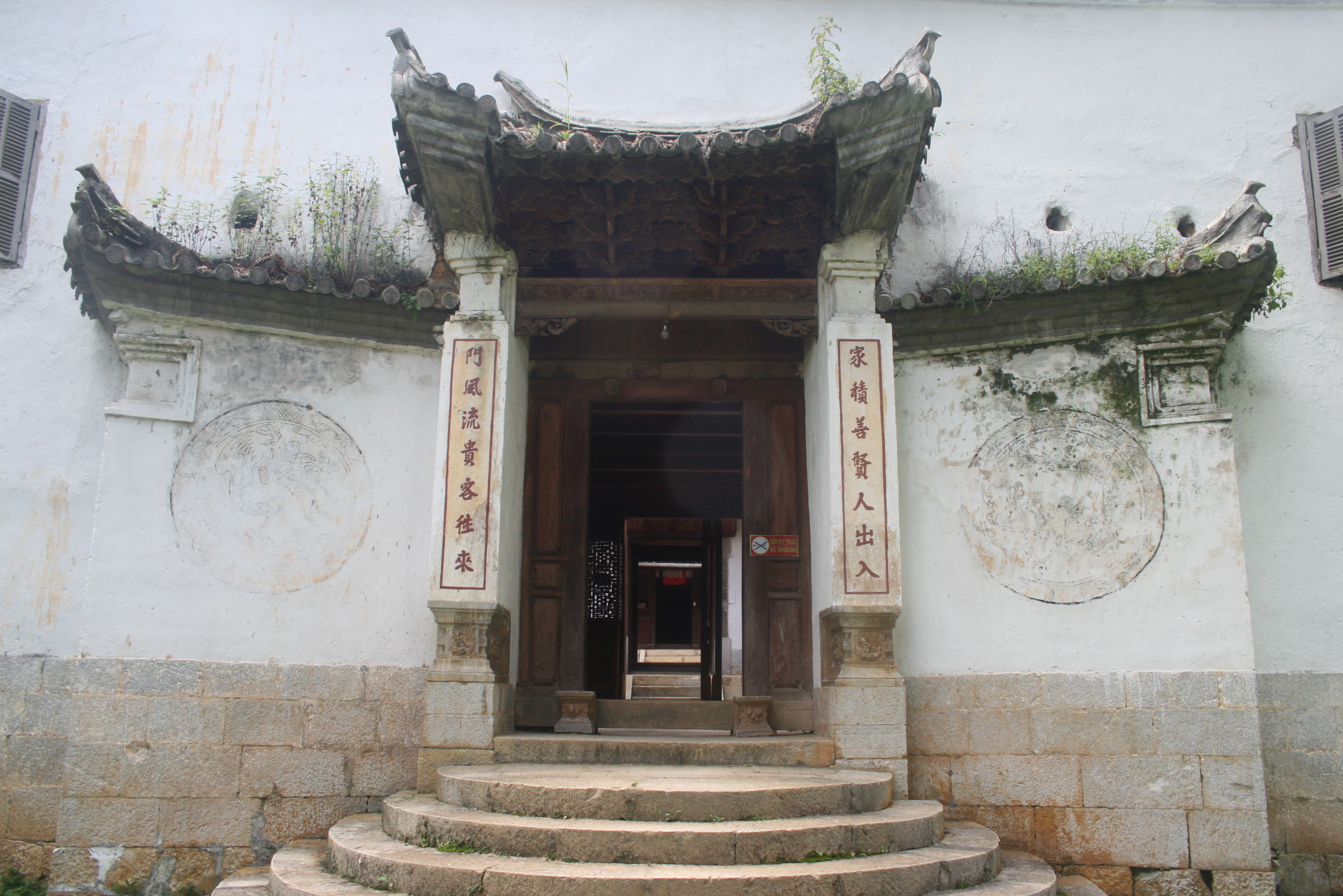 entrance to the Hmong king's house in Sa Phin, Dong Van district, Ha Giang province, Vietnam